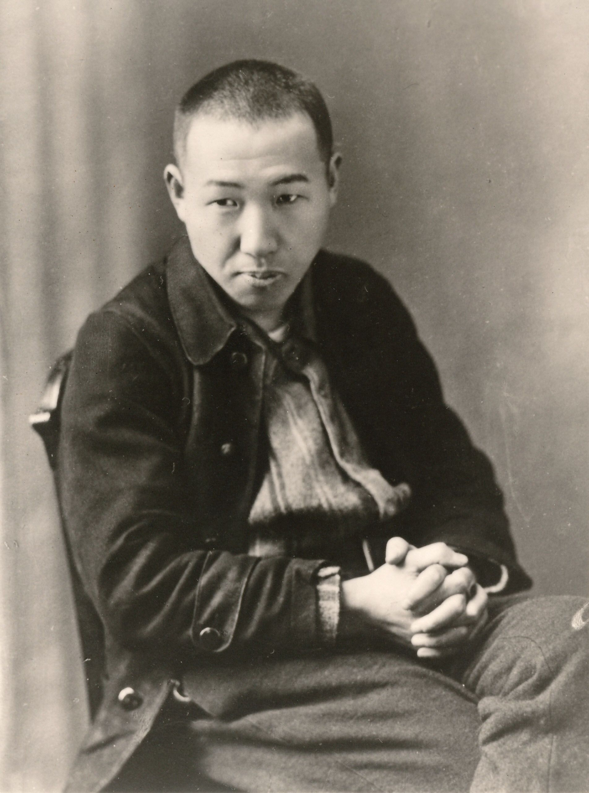 Portrait of Japanese novelist and poet Miyazawa Kenji (宮沢賢治)